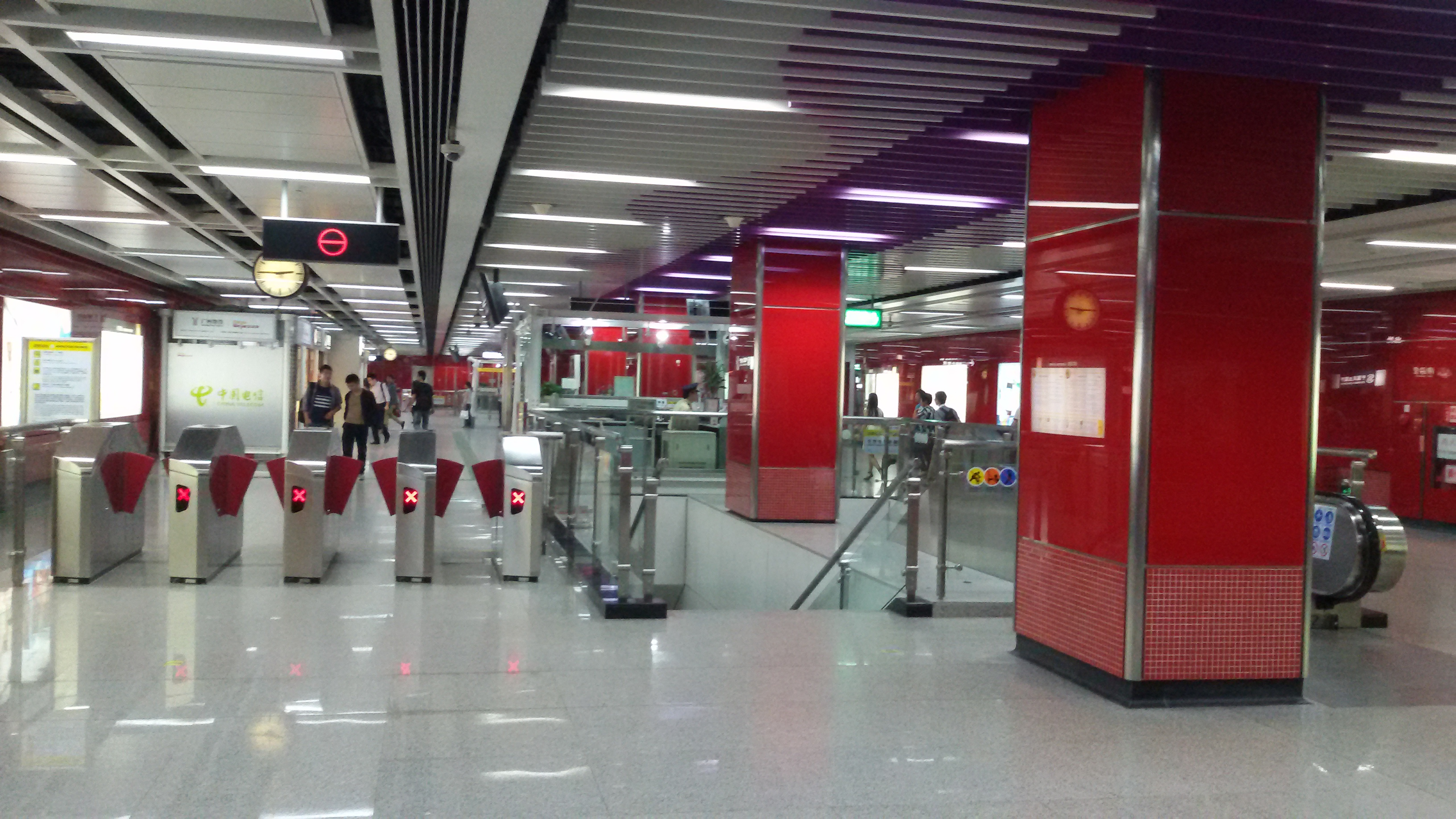 Station Concourse for Xinzao Station in Guangzhou Metro.